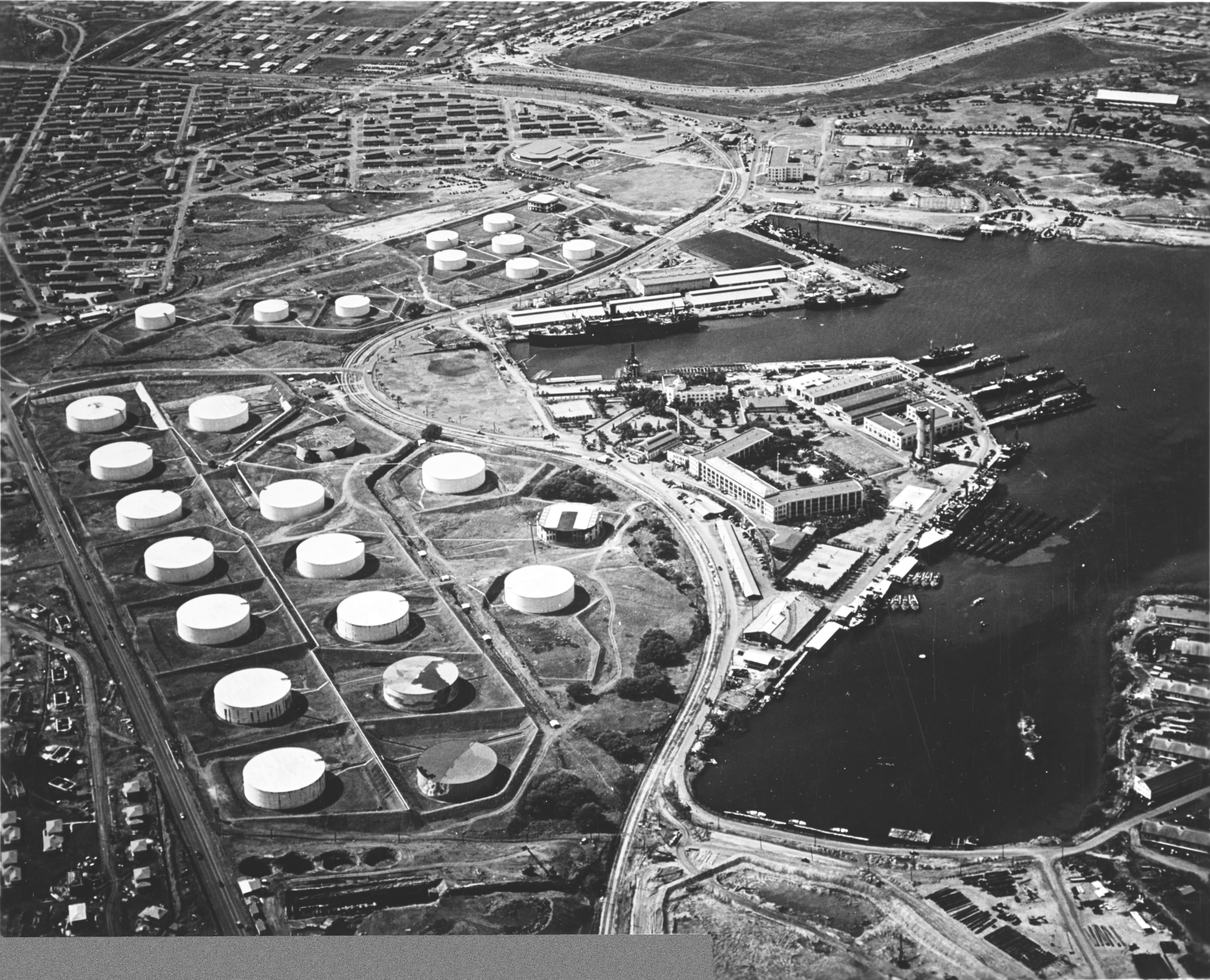 Aerial view of the Pearl Harbor submarine base (right center) with the fuel farm at left, looking south on 13 October 1941. Among the 16 fuel tanks in the lower group and ten tanks in the upper group are two that have been painted to resemble buildings (topmost tank in upper group, and rightmost tank in lower group). Other tanks appear to be painted to look like terrain features. Alongside the wharf in right center are USS Niagara (PG-52) with seven or eight PT boats alongside (nearest to camera) and USS Holland (AS-3) with seven submarines alongside. About six more submarines are at the piers at the head of the submarine base peninsula.